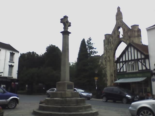 A shot of Howden's town centre, Howden, East Riding of Yorkshire, England. Taken by me, on my phone (as usual)